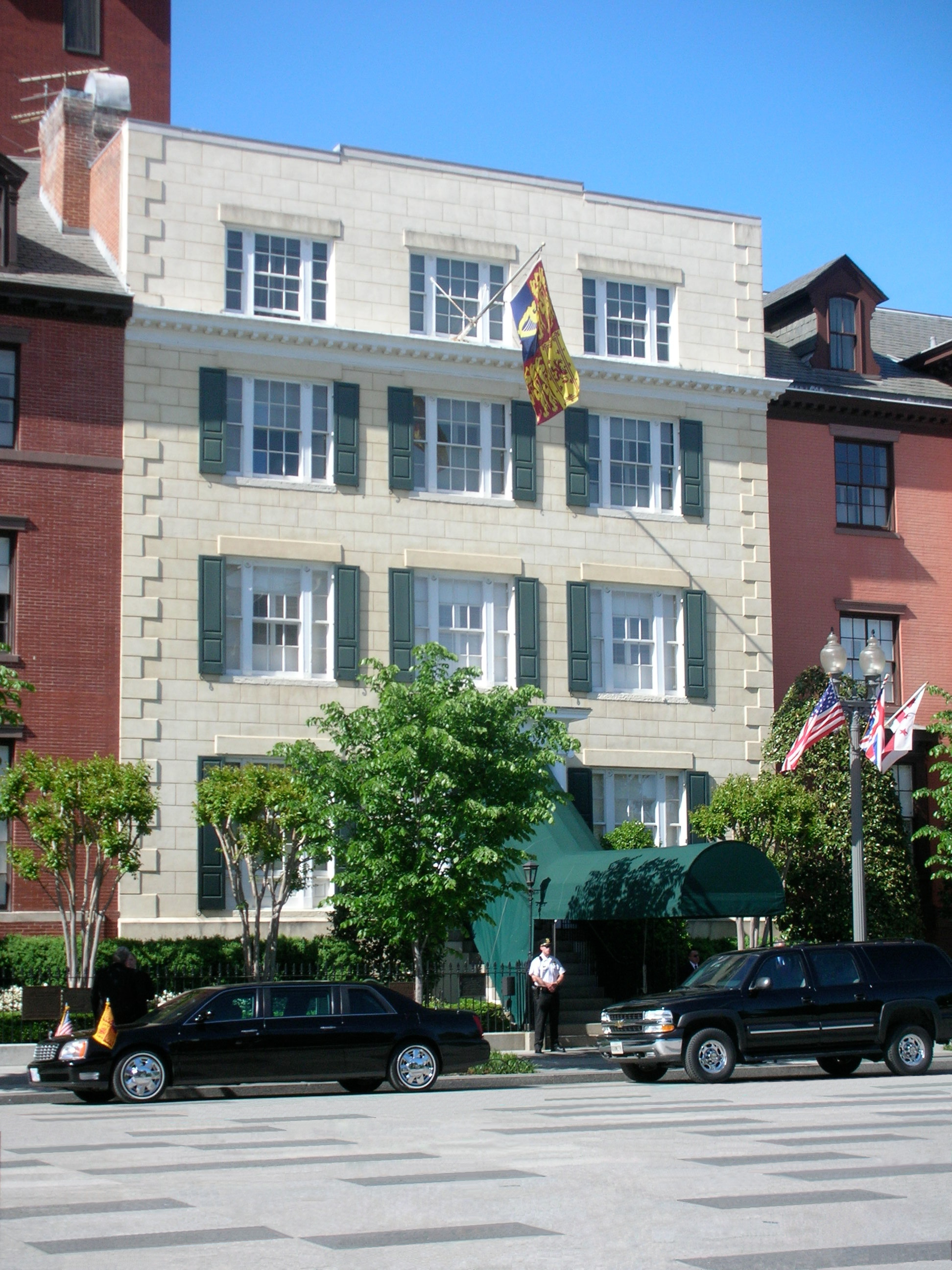 Blair House, the official state guest house for the President of the United States, during the state visit of Elizabeth II